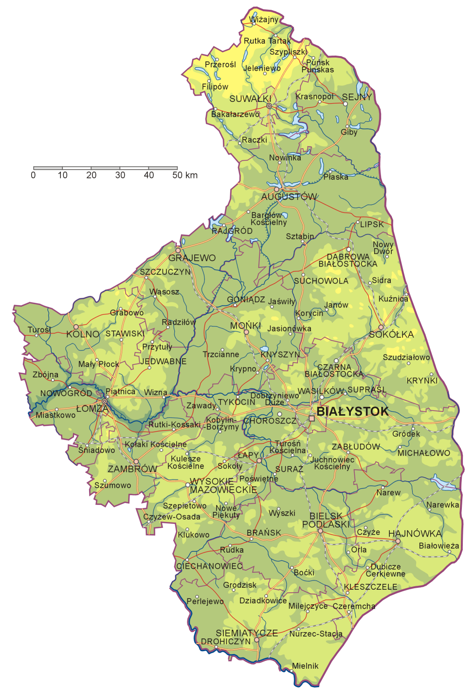 Map of Podlaskie Voivodship